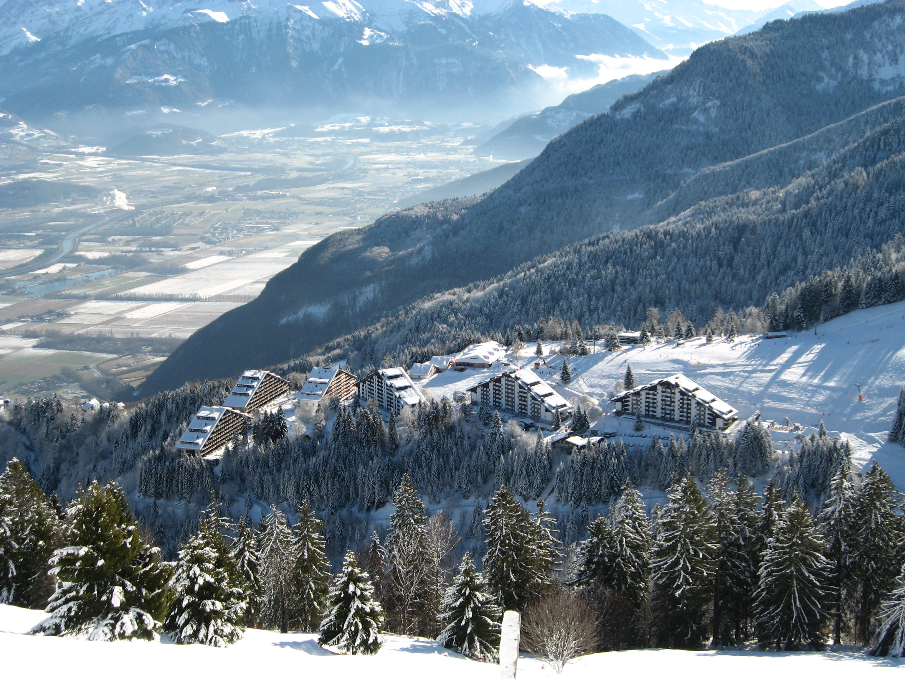 La Jorette, Torgon (Valais)